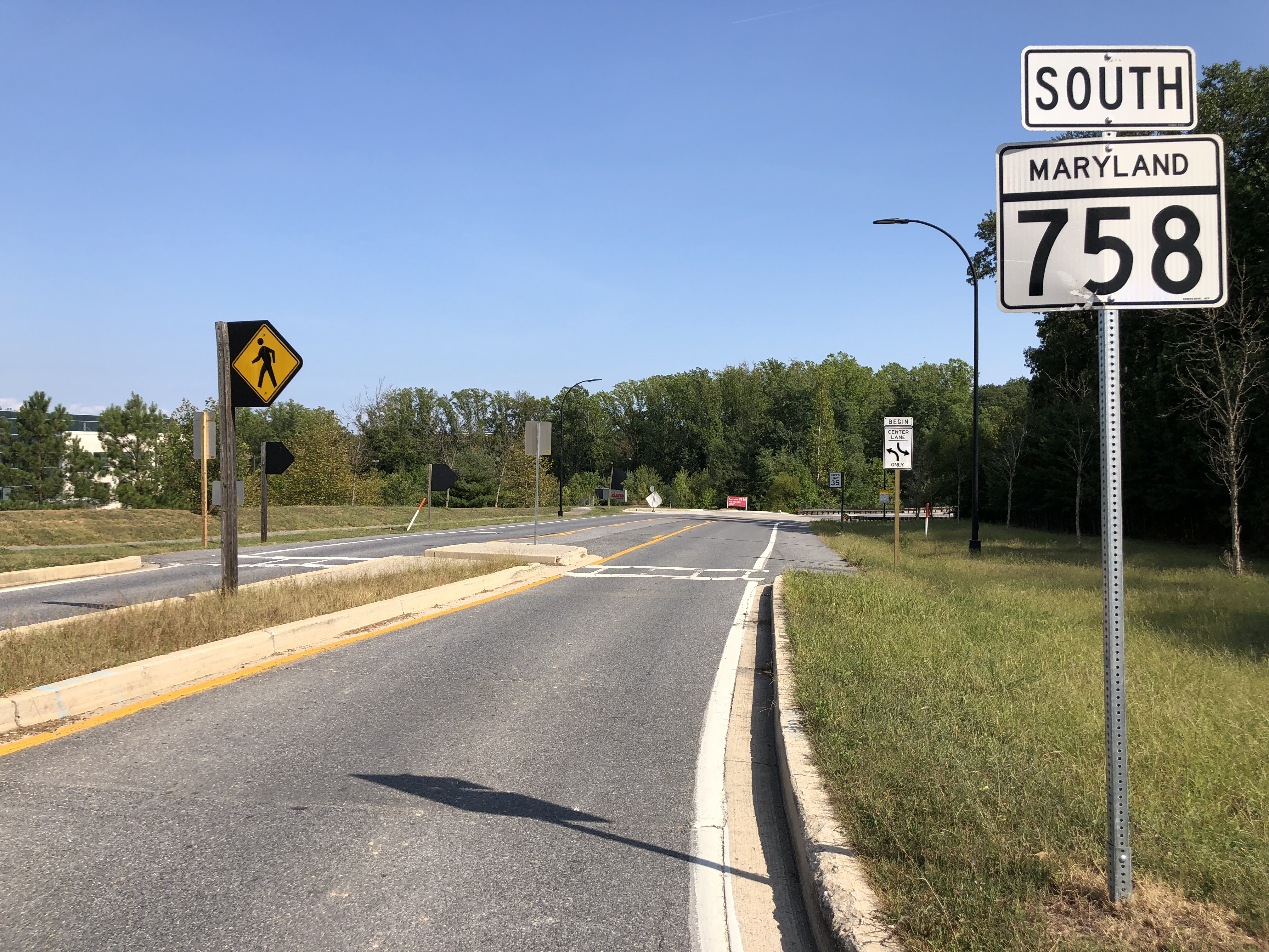 View south along Maryland State Route 758 (Corporate Center Drive) at Ridge Road in Ehrmansville, Anne Arundel County, Maryland